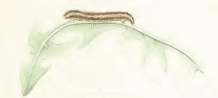 Iconographie et description de chenilles et lépidopteres inédits: Crocota tinctaria